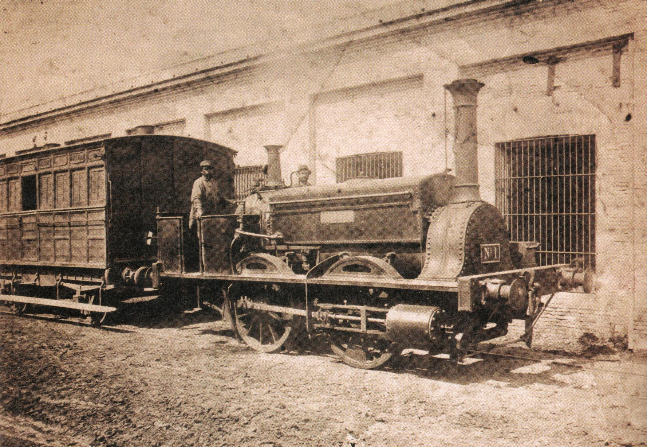 La Porteña locomotive. On August 29, 1857, it made its inaugural trip from Del Parque station to Floresta in Buenos Aires, Argentina.